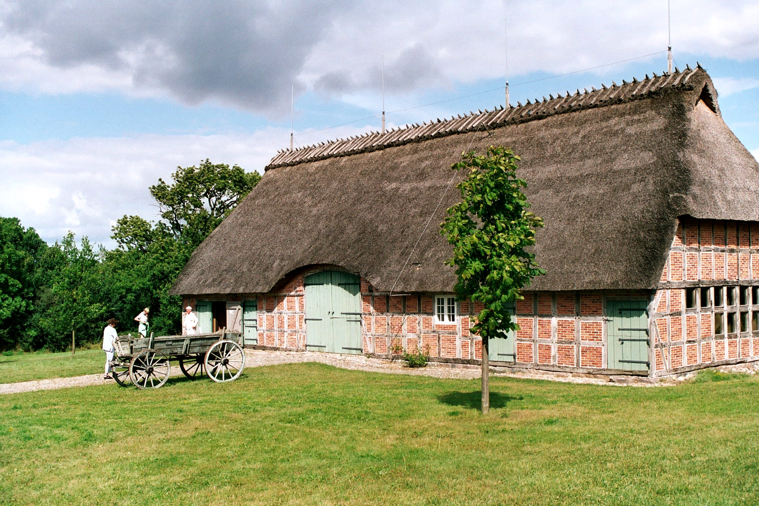 Langenballig, museum village Unewatt, the barn of the Marxenfarm